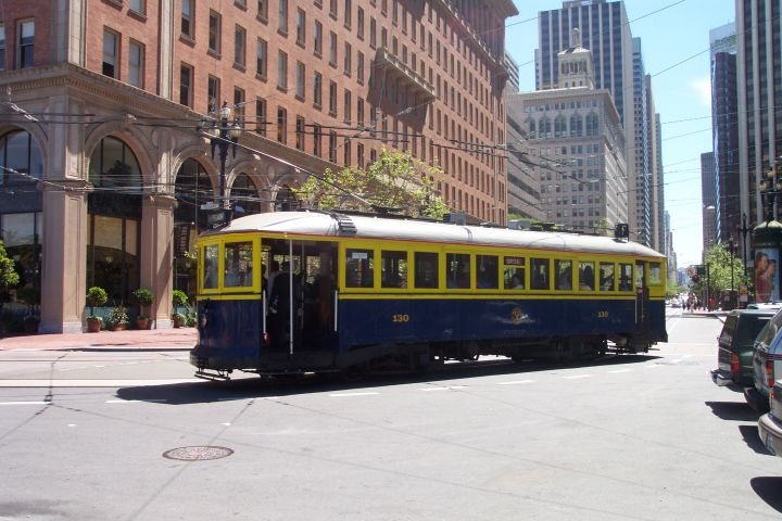 San Francisco F Market line streetcar 130 at foot of Market